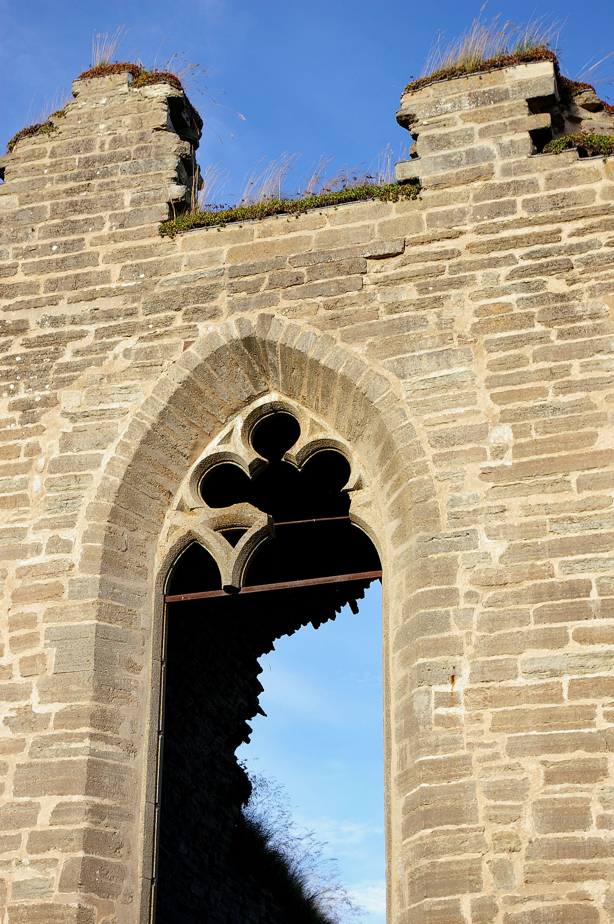 The monastery Alvastra in Sweden.